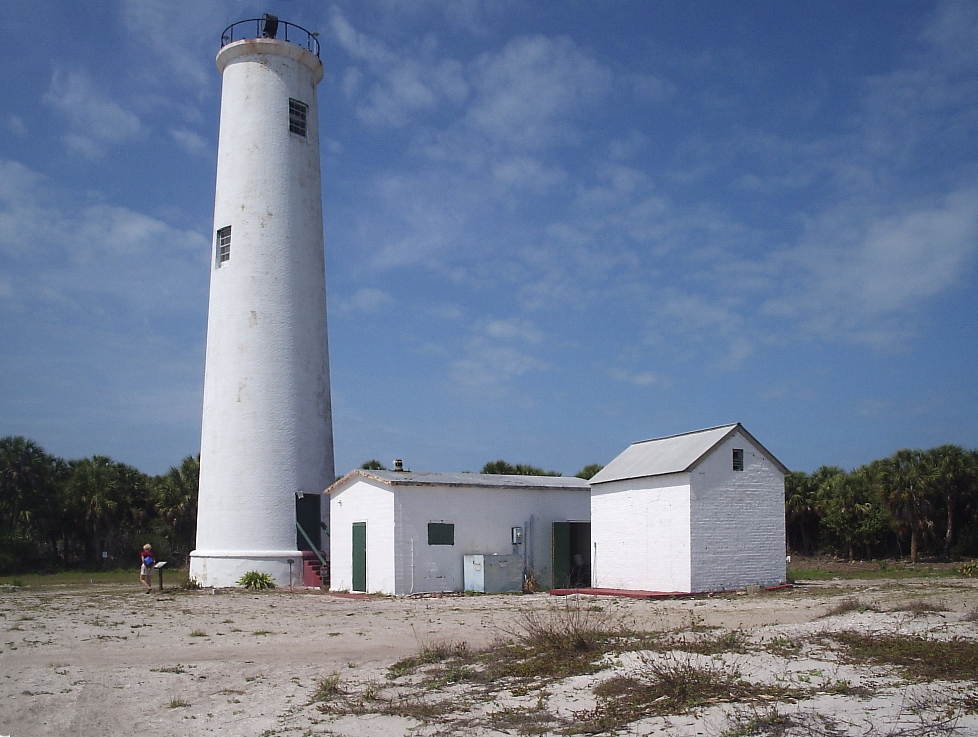 Lighthouse. Taken by me at Egmont Key State Park, Florida on March 16, 2006, using an Olympus Camedia D-395 digital camera . CC-BY-SA-2.5 Mikereichold 23:41, 16 March 2006 (UTC)